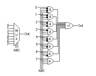 MUX